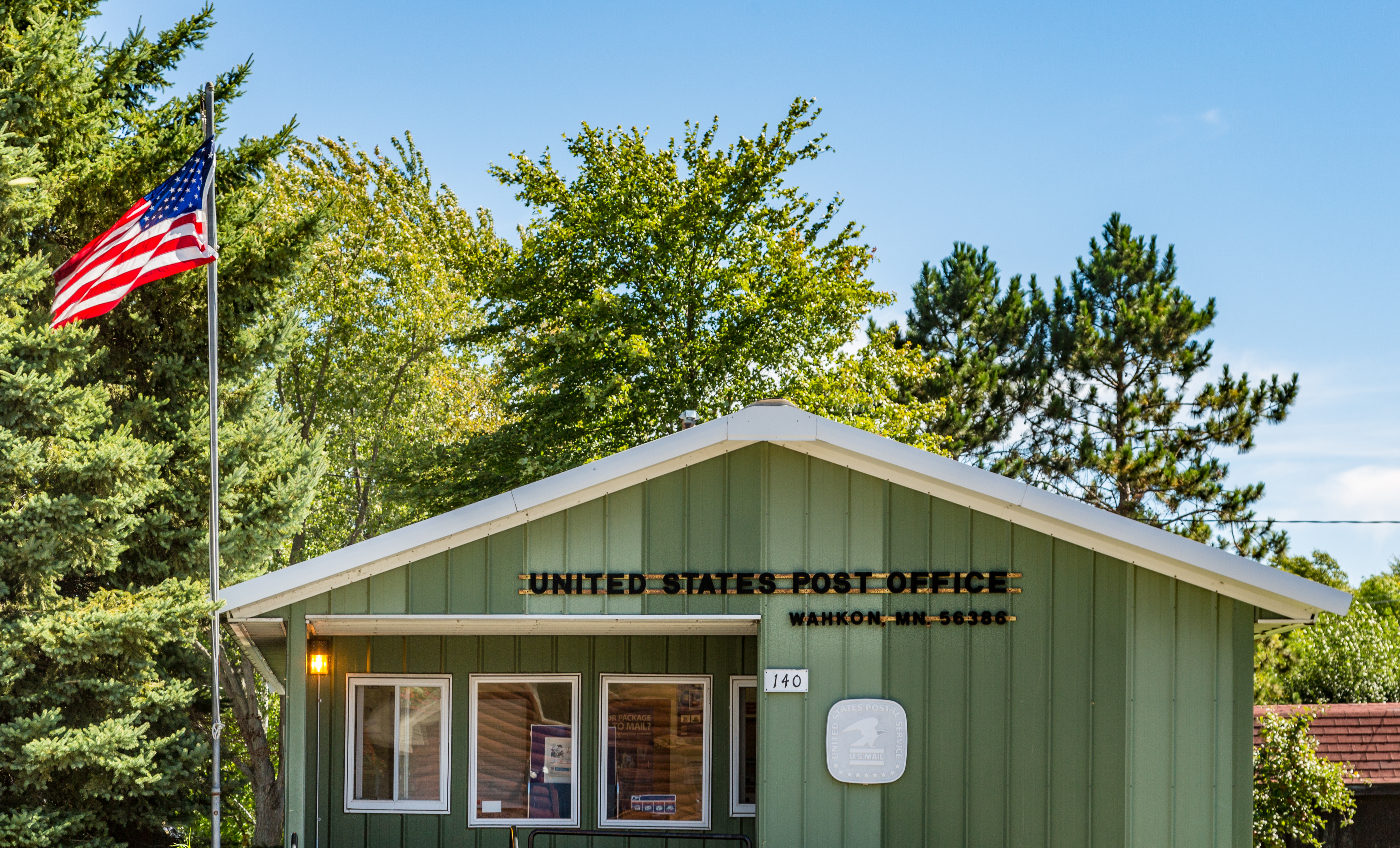 The US Post Office at 140 N. Main Street in Wahkon, Minnesota.